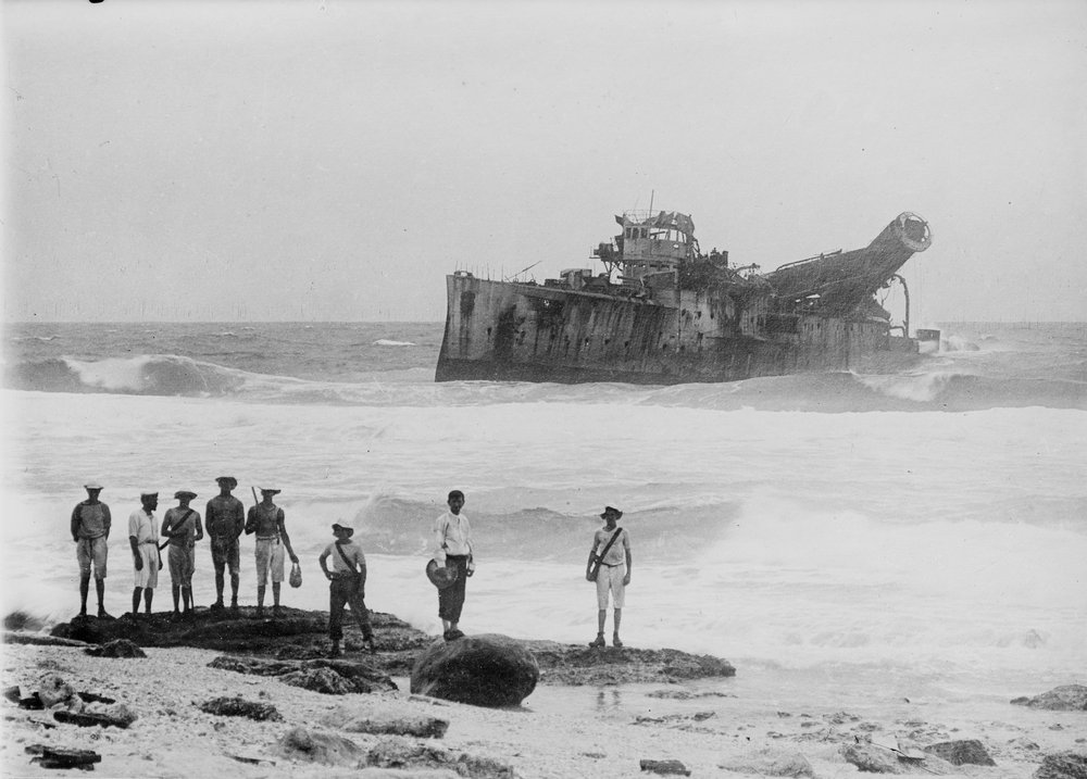 Light cruiser SMS Emden